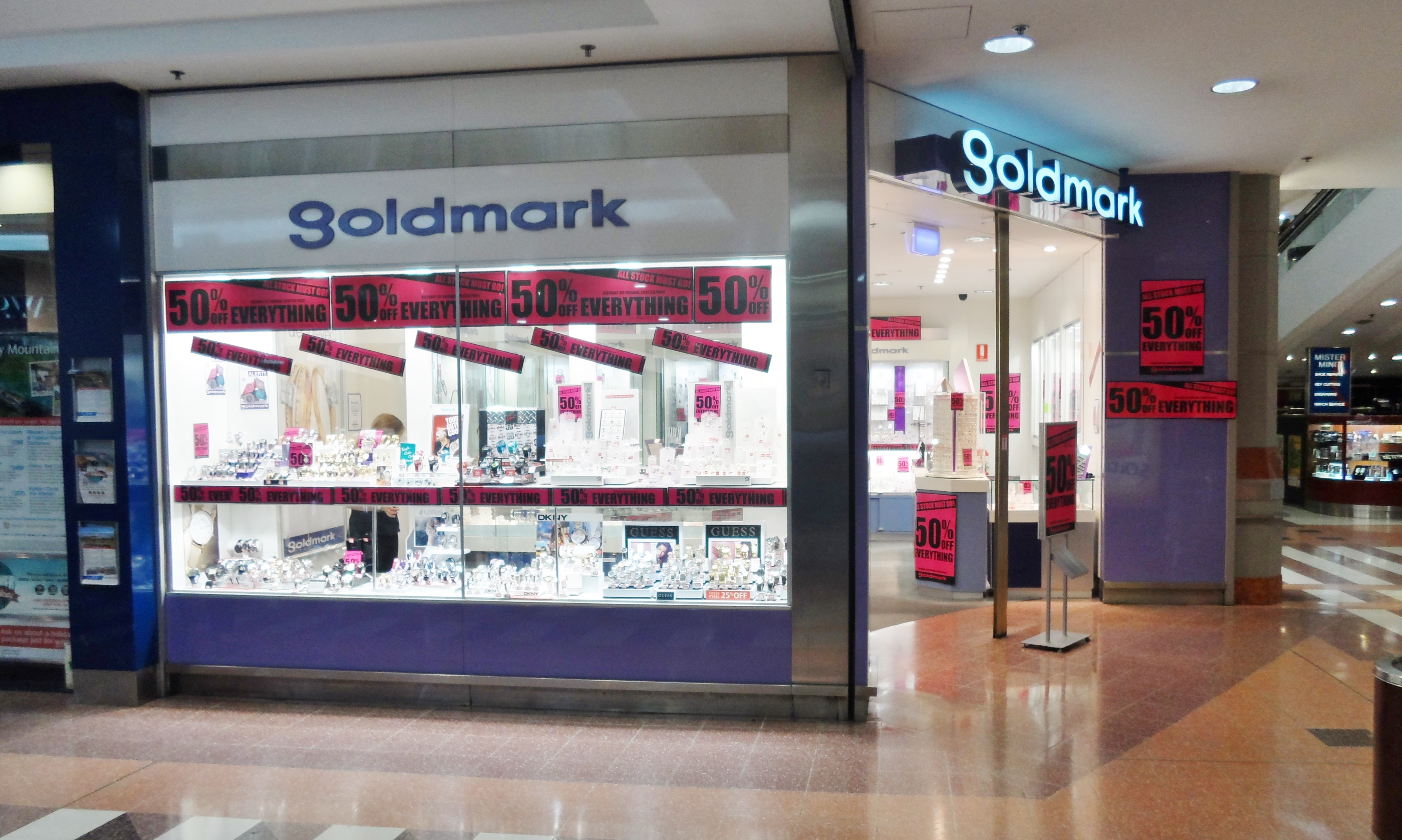 Australian jeweller Goldmark's store at the Broadway shopping centre in Broadway, Sydney in 2013.